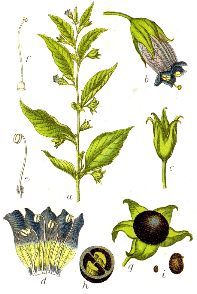 Atropa bella-donna L. Original Description Tollkirsche, Atropa belladonna